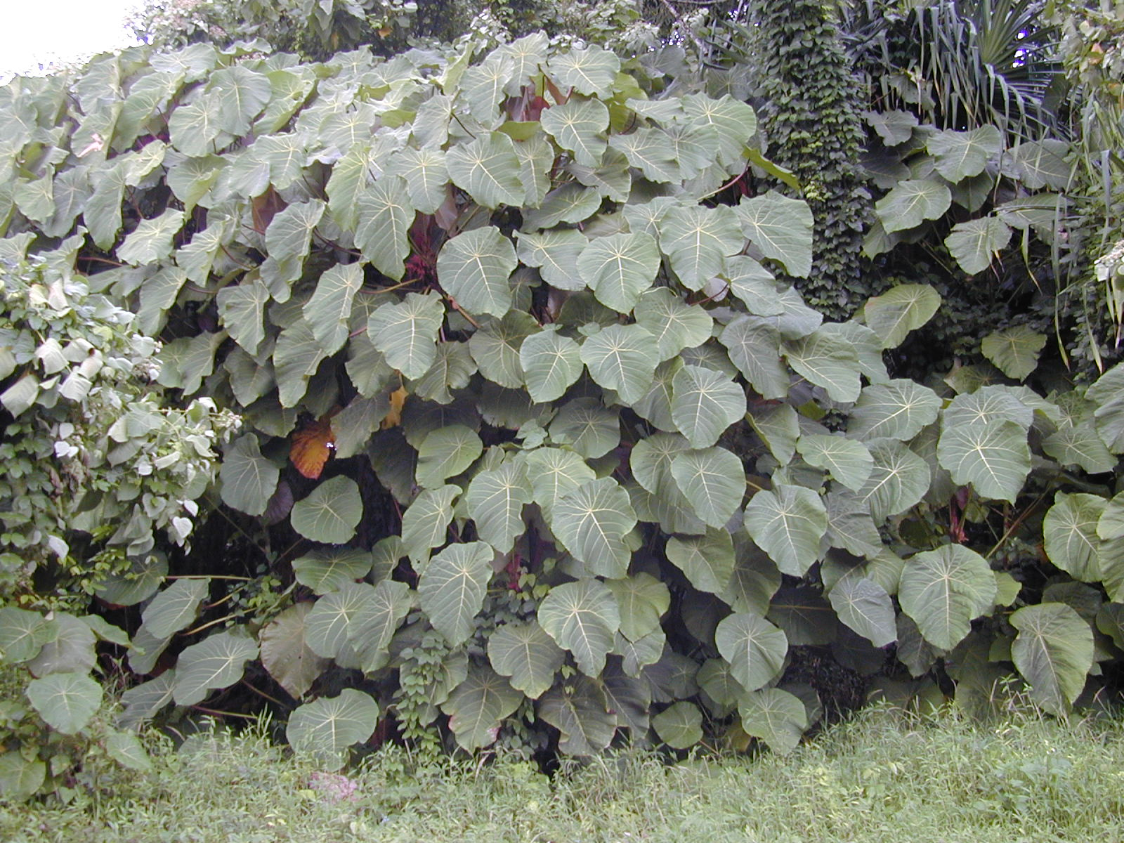 Macaranga mappa (dense habit). Location: Hawaii, Hilo